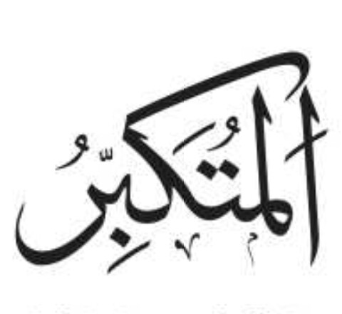 Al motakaber / Al-motakaber / Almotakaber / Al mutakaber / Al-mutakaber / Almutakaber / Al motakáber / Al-motakáber / Almotakáber / Al mutákáber / Al-mutákabir / Almutákabir / Al motakabir / Al-motakabir / Almotakabir / Al mutakabir / Al-mutakabir / Almutakabir / Al motakábir / Al-motakábir / Almotakábir / Al mutákábir / Al-mutákabir / Almutákabir / Is a name of Allah Is a name of God in islam / islam.